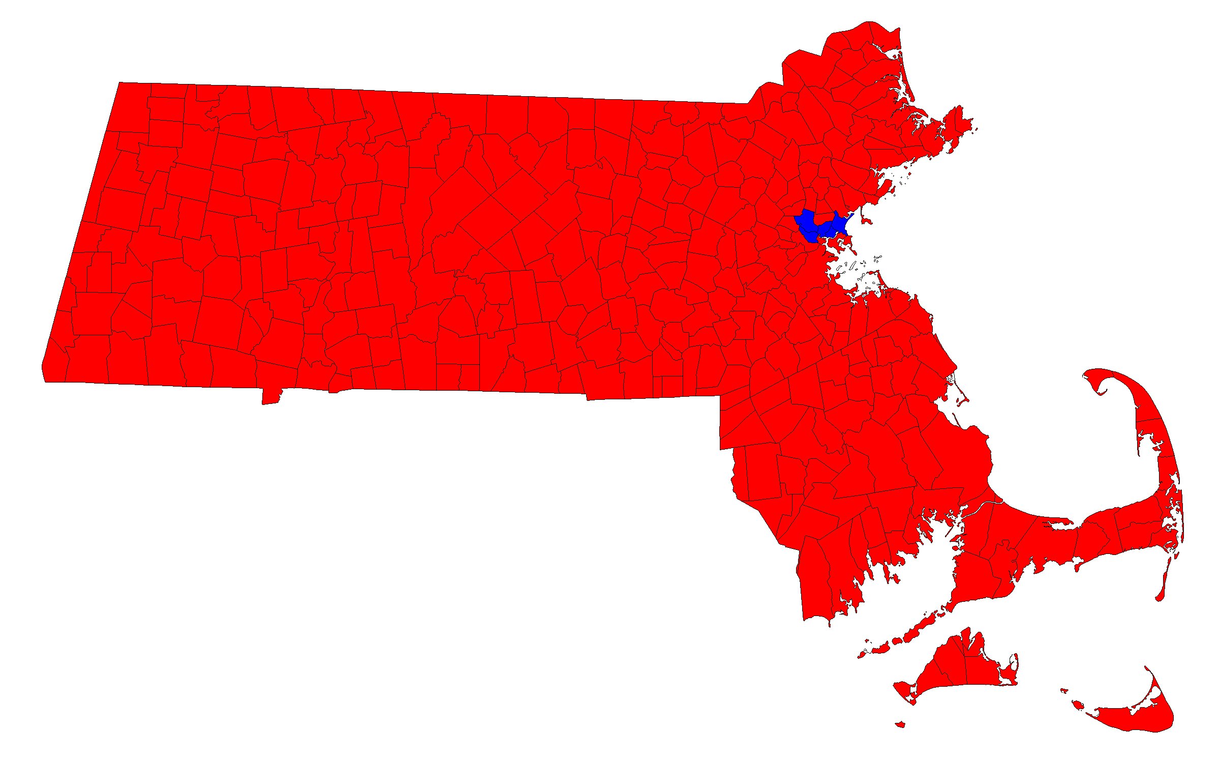 Results of the 1972 United States Senate election in Massachusetts. Towns in blue won by Droney, red by Brooke. Data procured at